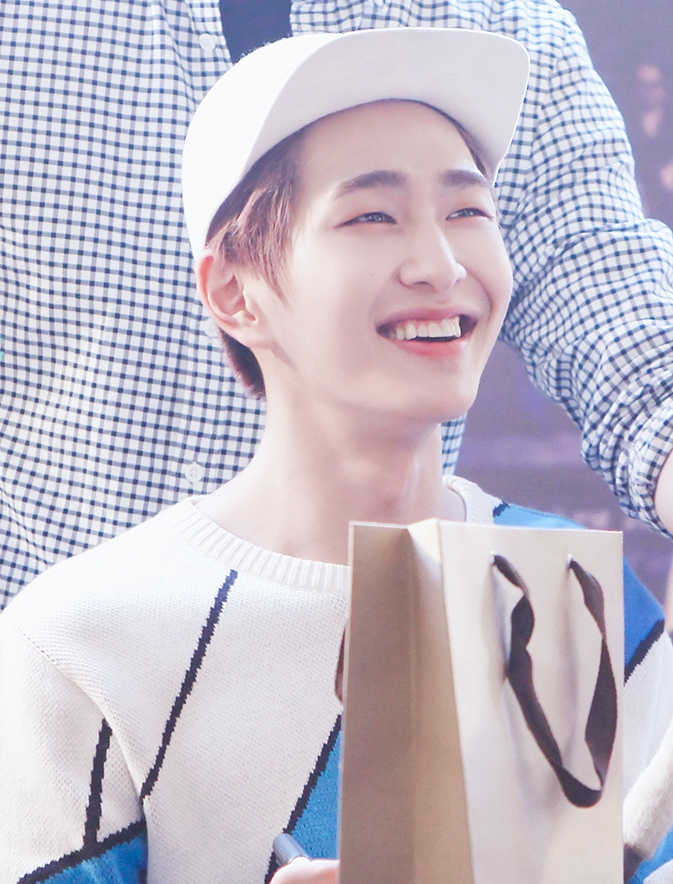 Onew at a fansign at IFC Mall in Yeouido on May 29, 2015.